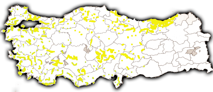 According to Sevan Nişanyan's Adını unutan ülke: Türkiye'de adı değiştirilen yerler sözlüğü (2010, Everest Yayınları, Istanbul) [1]